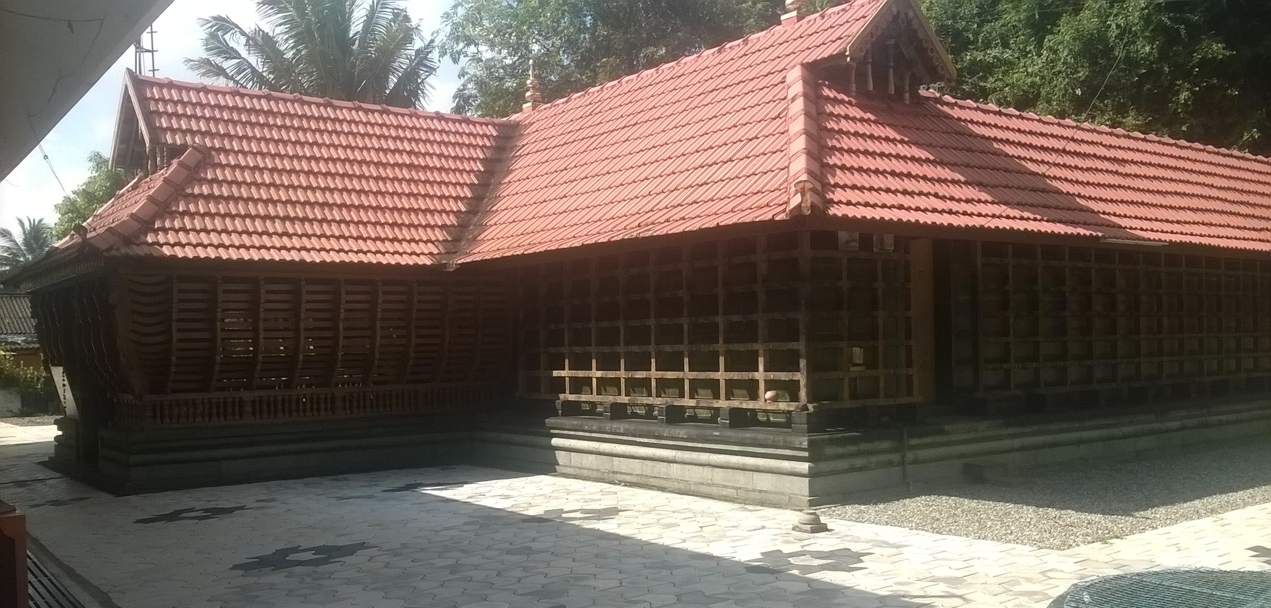 Kadakkad Sreebhadrakali Temple Image Uploaded by Agnostos Theos